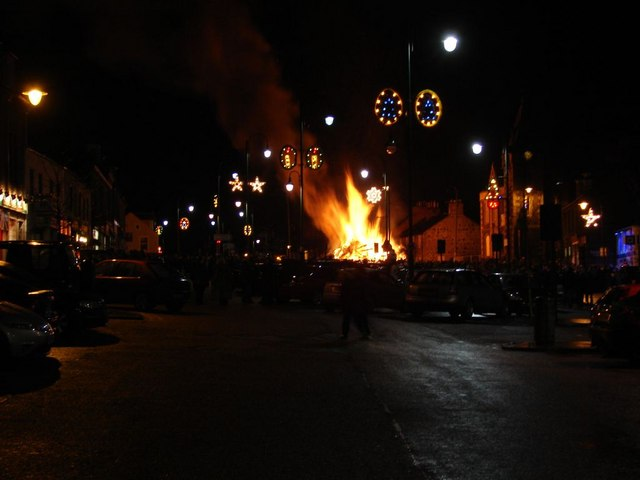 Hogmanay 2007 in Biggar A crowd has gathered around the bonfire in Biggar's main street to see in the start of 2008.